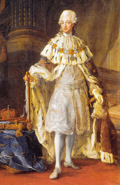 Portrait of Gustav III of Sweden (1746-1792)